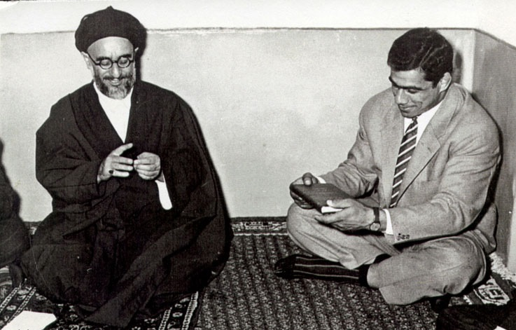 Mahmoud Taleghani gives a Quran as gift to Gholamreza Takhti in a meeting, Hedayat Mosque, Tehran - 1957